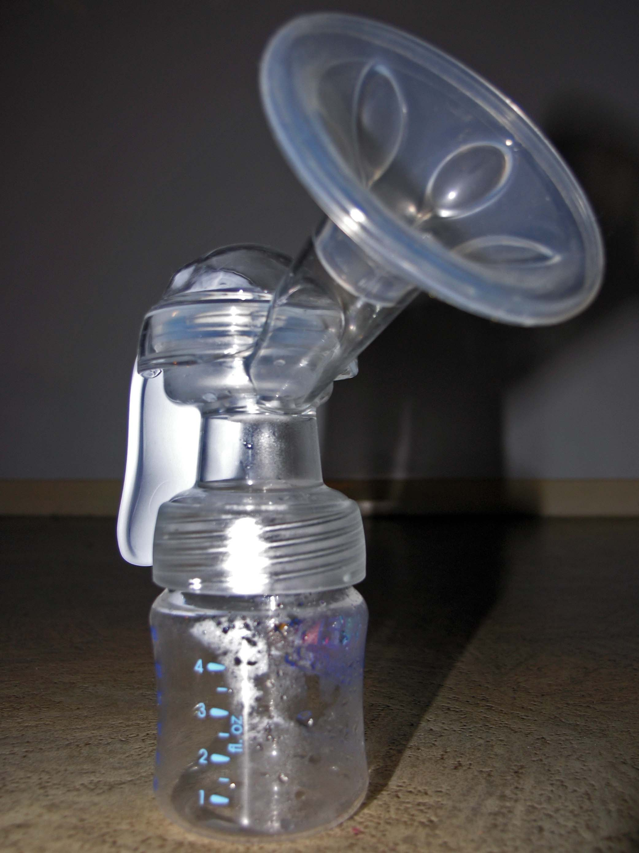 A manual breast pump taken with an Olympus C8080W. Image created by the uploader - User:SeanMack.